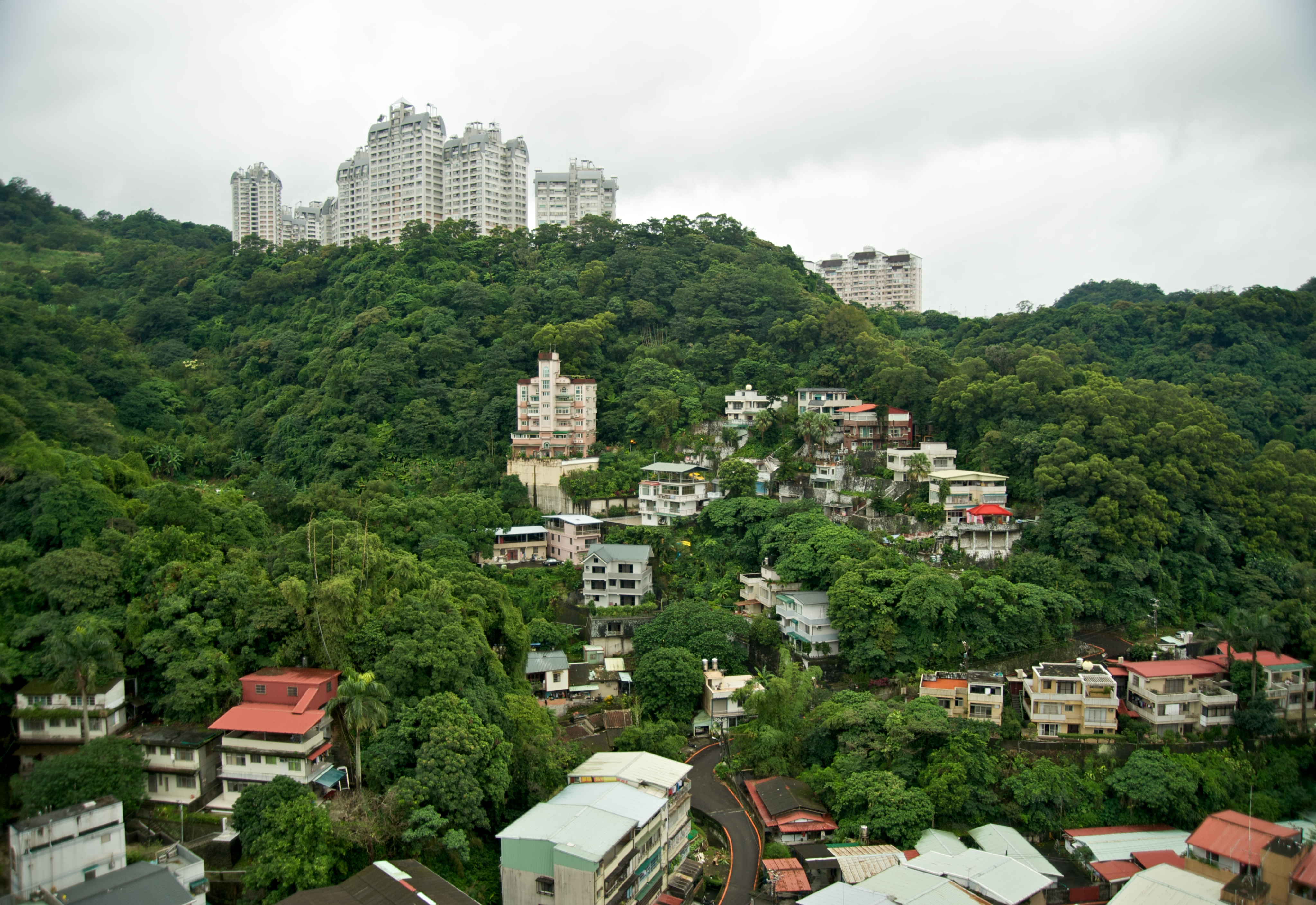 Citiscape view of the Xindian City in Taipei County, Taiwan